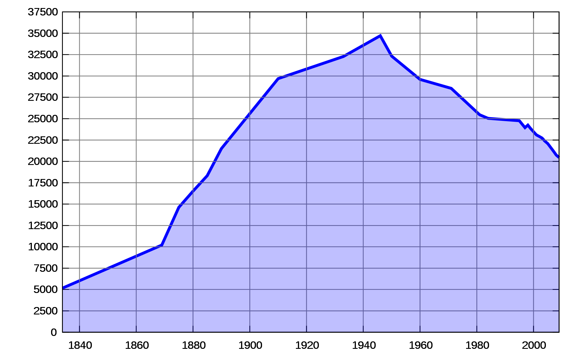 Historical population of Reichenbach im Vogtland (Saxony, Germany)